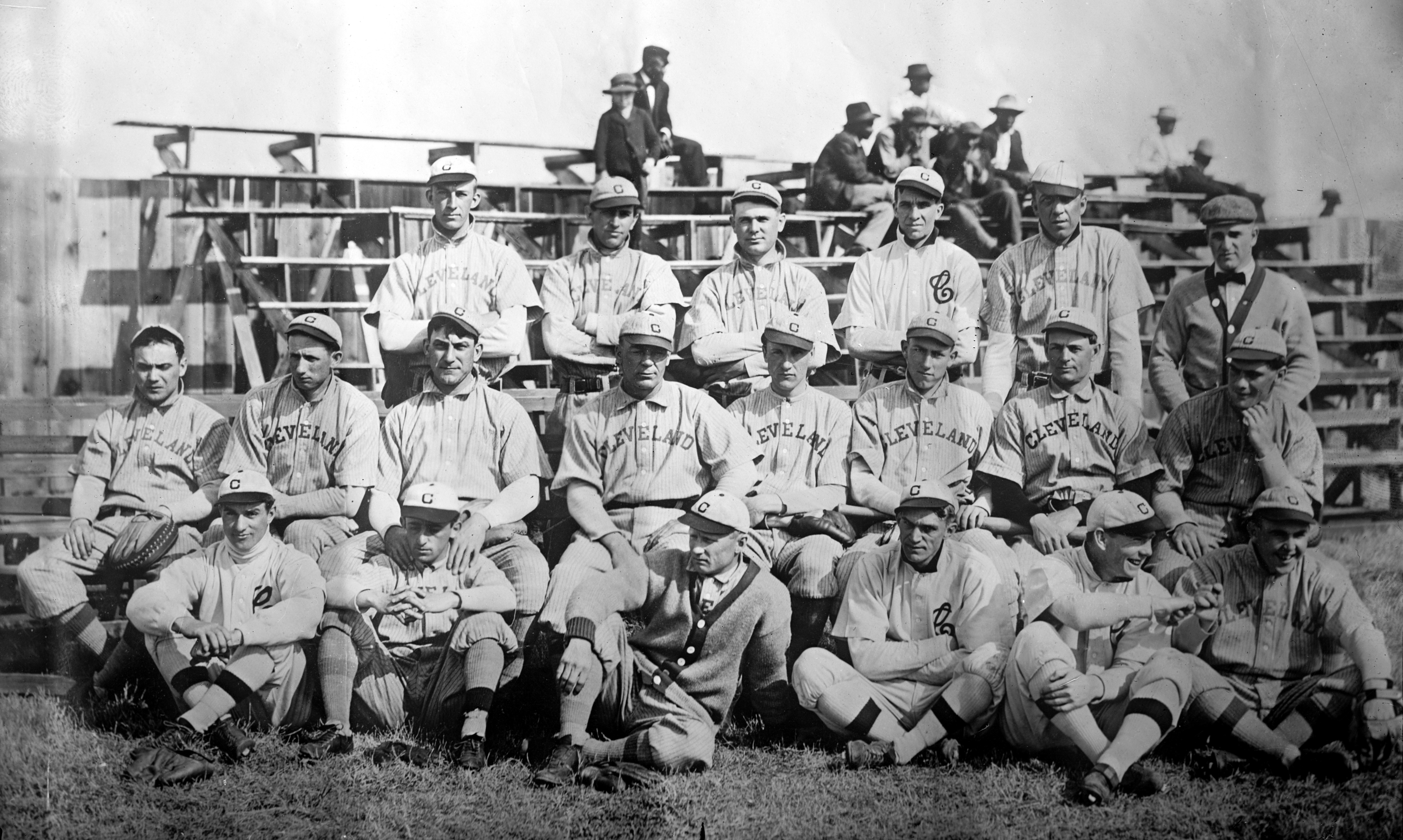 Cleveland Americans (Naps) posing as team, 1909